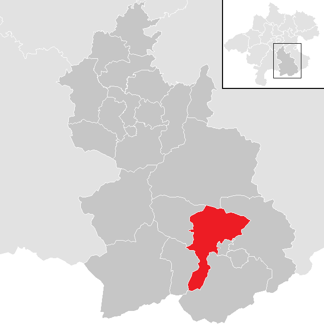 district Kirchdorf an der Krems